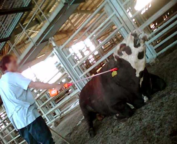 Cows with broken legs that cannot stand beaten and electrocuted in all parts of their body - neck and annals to force them to stand and go to slaughter. Bakar Tnuva Israel 2012. undercover photograph by Ronen Bar